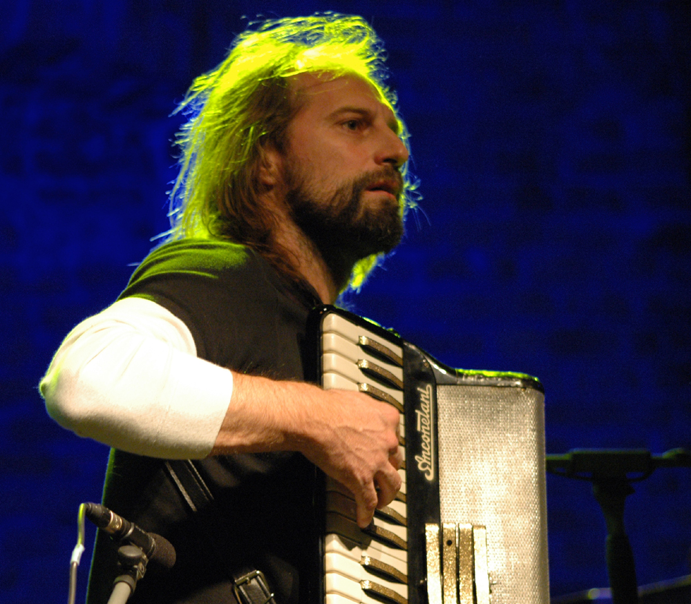 Horacio "Chango" Spasiuk of Argentina performing in Warszawa, Poland.